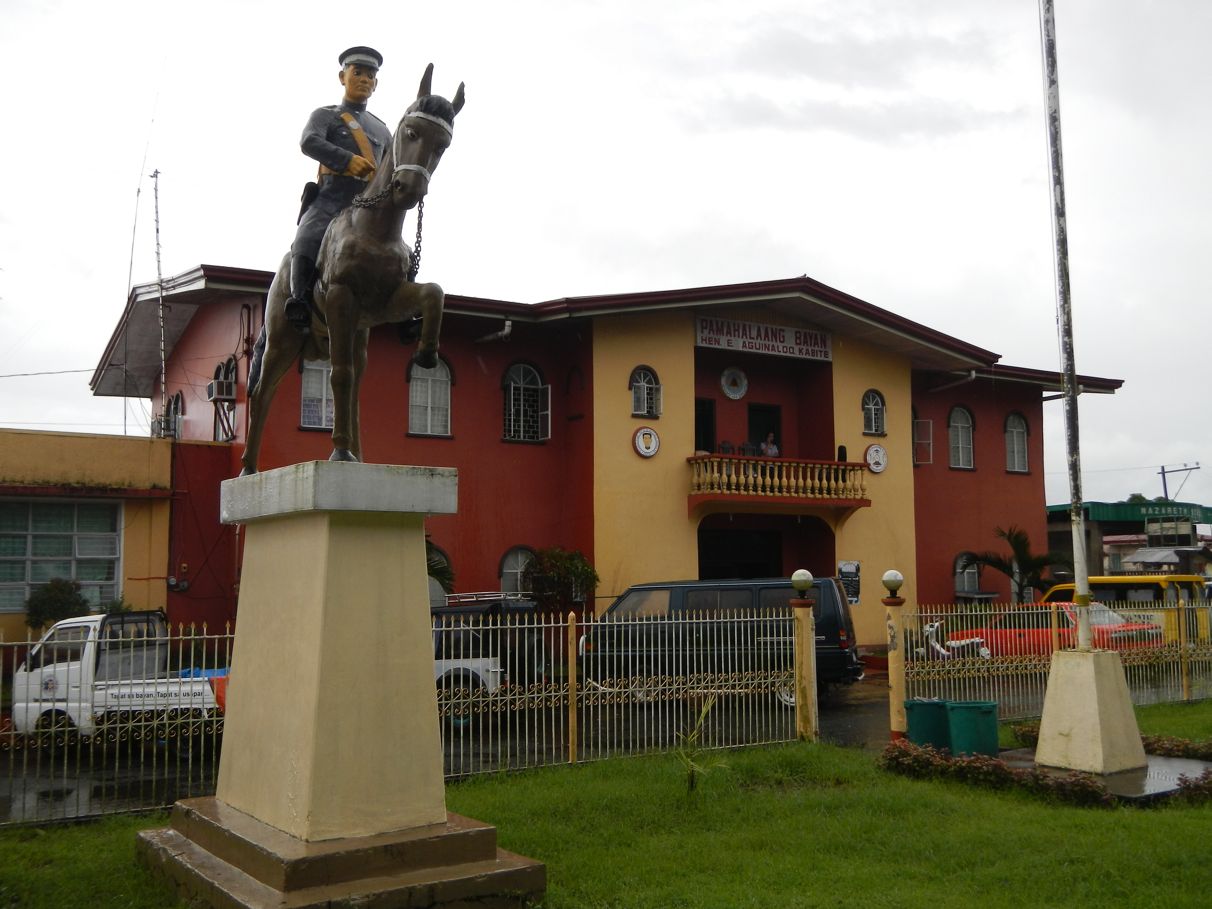 Upload Wizard -- (general description of landmarks, town, church, bad weather, going to dark, sunset conditions) - of - Town Hall of General Emilio Aguinaldo, Cavite[1] - beside the --- Saint Joseph Parish Church of General Aguinaldo (Vicariate of The Seven Archangels (Tagaytay City/Mendez/Indang/Alfonso/General Aguinaldo) Vicar Forane: Rev Fr. Luisito C. Gatdula Vicarial Representative: Rev. Fr. Hermenegildo M. Asilo - (belongs to the Roman Catholic Diocese of Imus [2][3] [4] [5] [6] [7] [8]) - General Emilio Aguinaldo, Cavite[9] (formerly Bailen, now renamed again to Bailen, subject to Ratification of the Law, is a municipality in the province of Cavite, [10] Philippines; 2010 census, population of 17,507 people, fifth class, named after Emilio Aguinaldo[11], the president of the First Philippine Republic; changed its name to Bailen after the Sangguniang Panlalawigan approved Committee Report 118-2012 last September 3, 2012, however yet to be ratified ;politically subdivided into 14 barangays 4 urban, 10 rural).[12] Geographical location: Cavite, Region 4, Philippines, Asia Geographical coordinates: 14° 11' 3" North, 120° 47' 45" East [13] [14] [15] Coordinates: 14°10'45"N 120°48'23"E [16]).